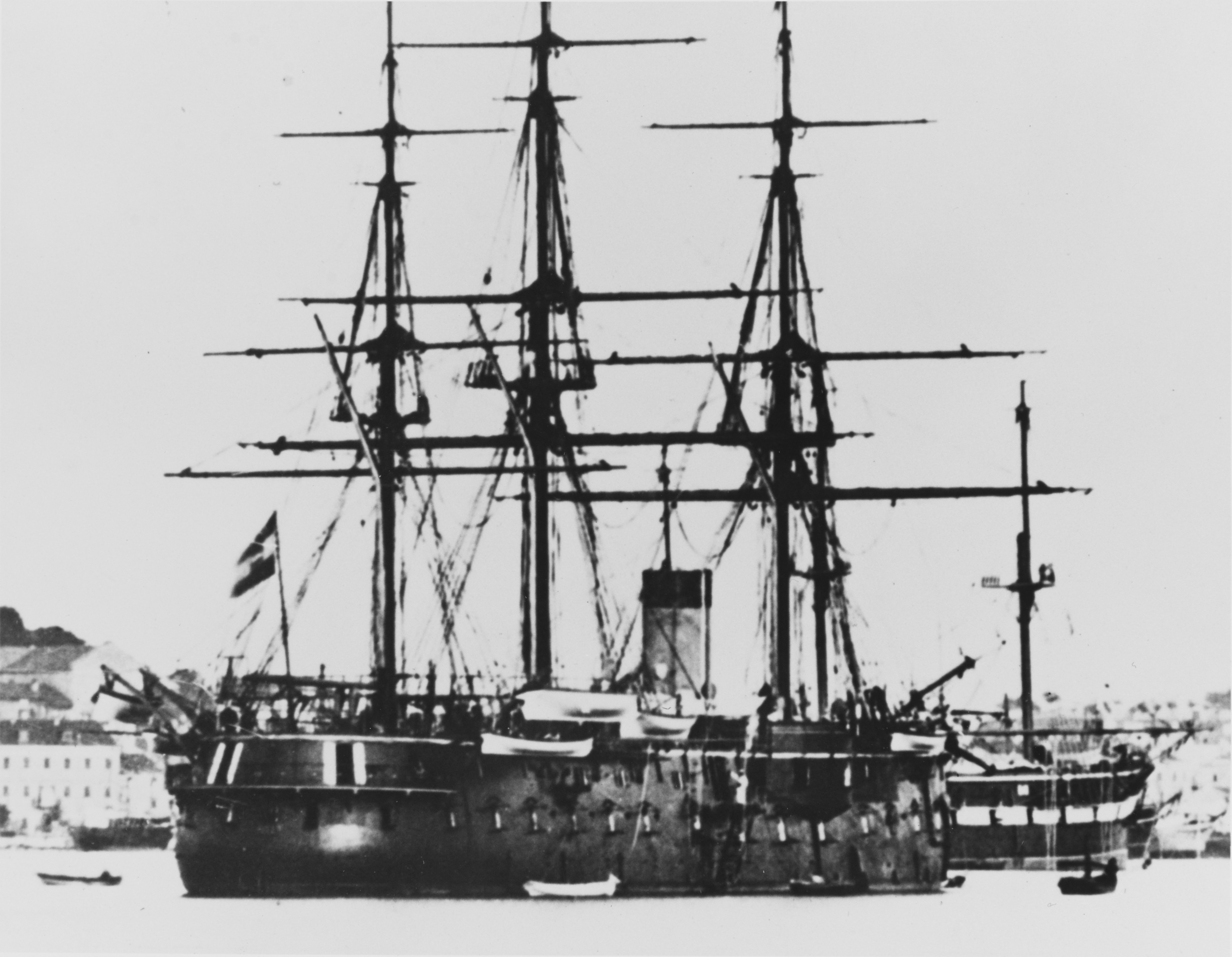 The SMS Kaiser in service as central battery ship.